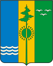 Nizhnekamsk rayon (Tatarstan), coat of arms